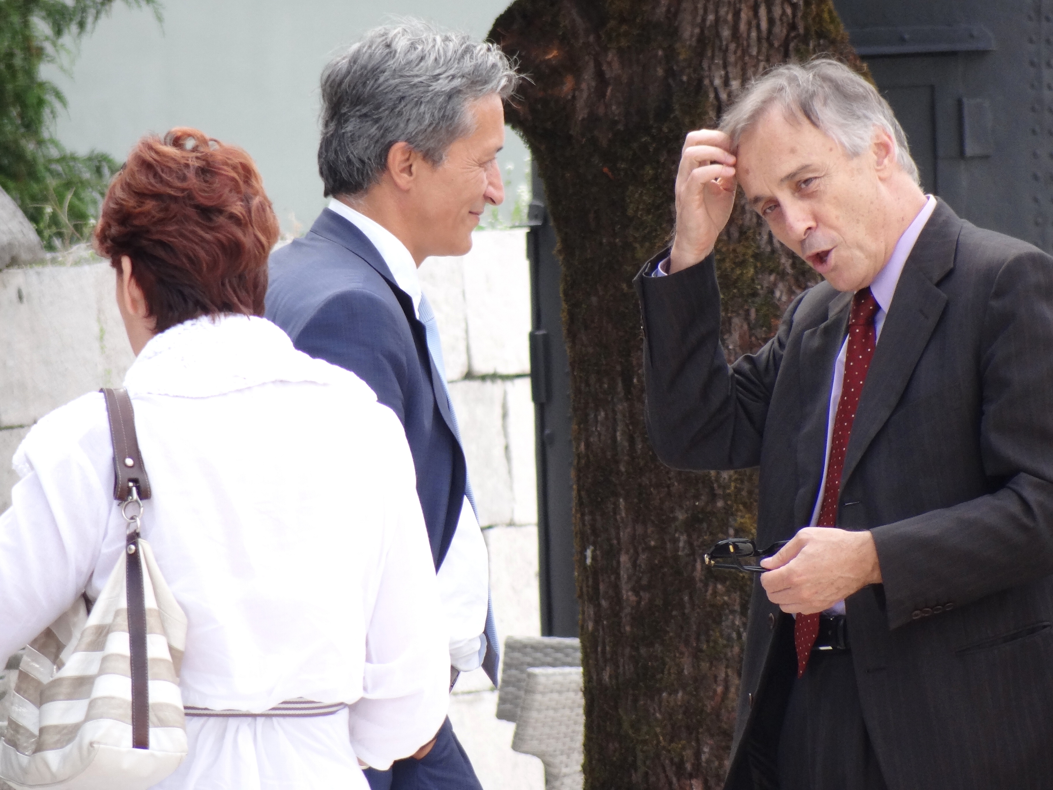 Men Chatting in Street - Cetinje - Montenegro